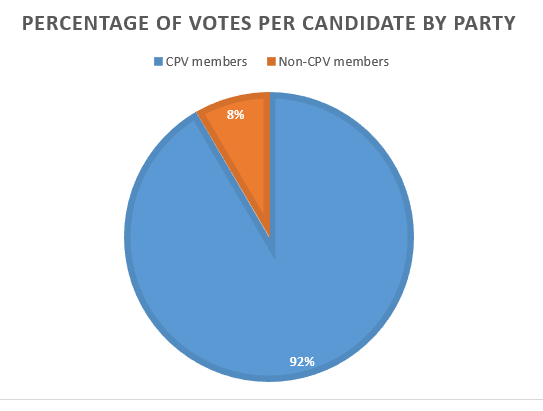 Vietnam election 2011 results show that non-party members made up 8.4% of seats.